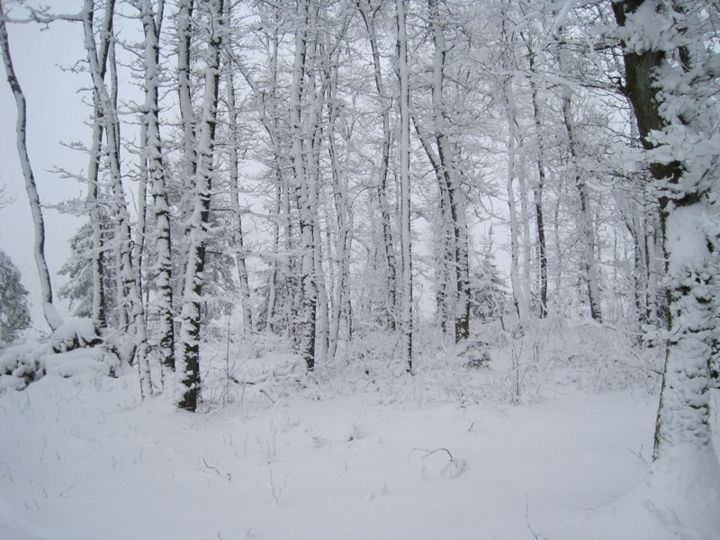 Forest between Ennest and Huelschotten in North Rhine-Westphalia on 2 February, 2010.